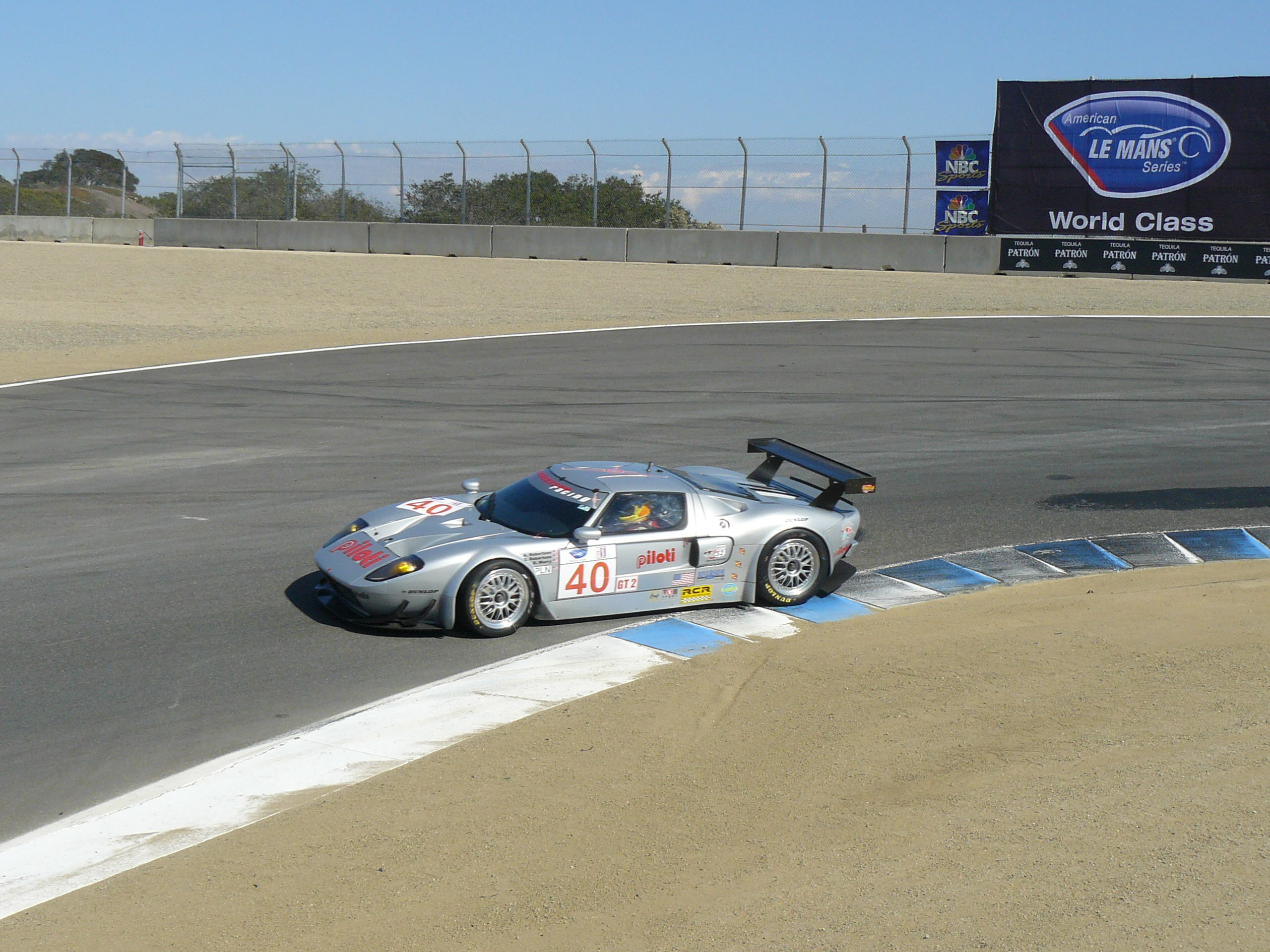 No.40 Robertson Racing Doran Ford GT-R on the Corkscrew - ALMS Laguna Seca, Monterey, California, USA. October 2008